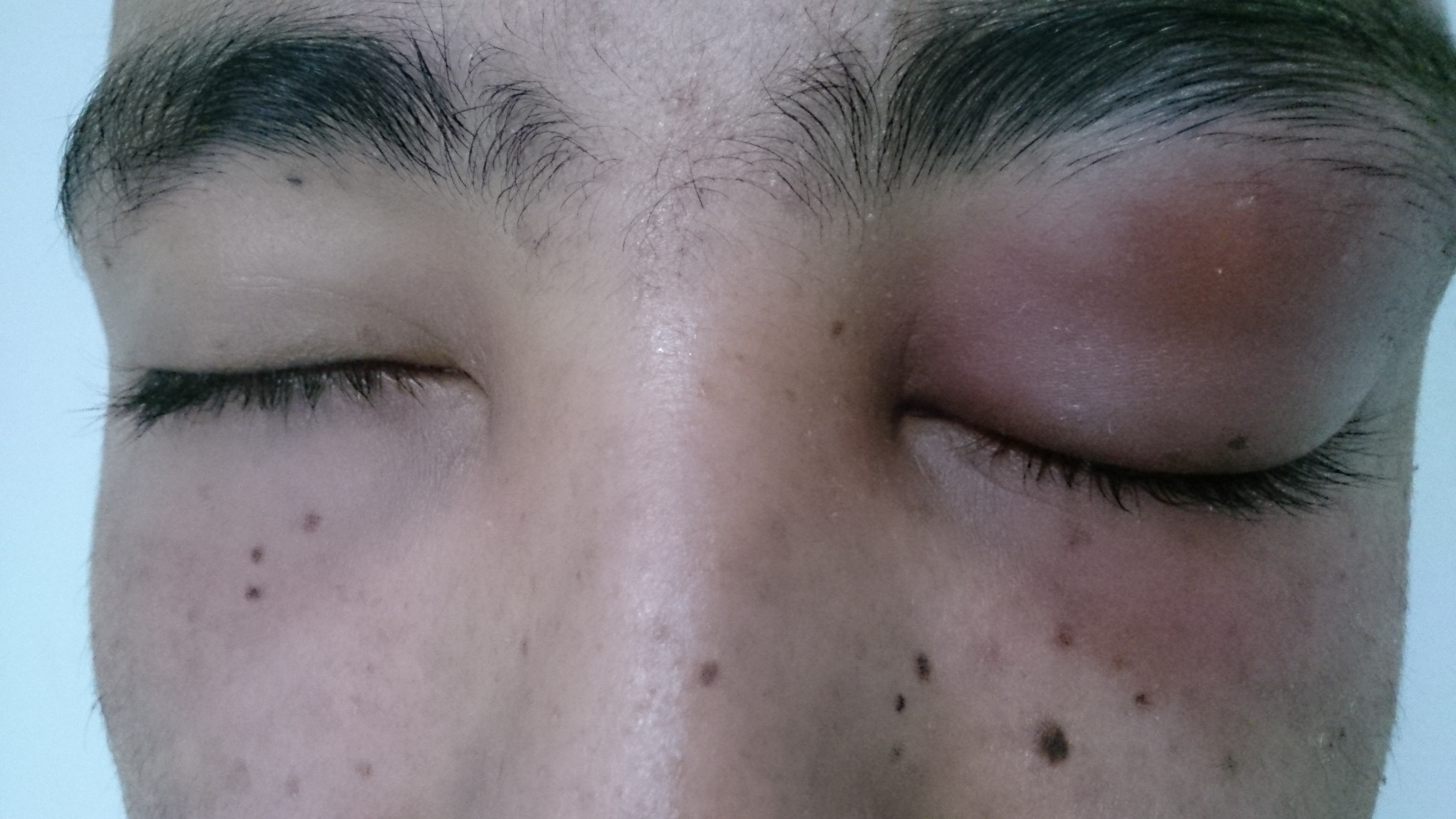 Periorbital cellulitis in 20 years old man.